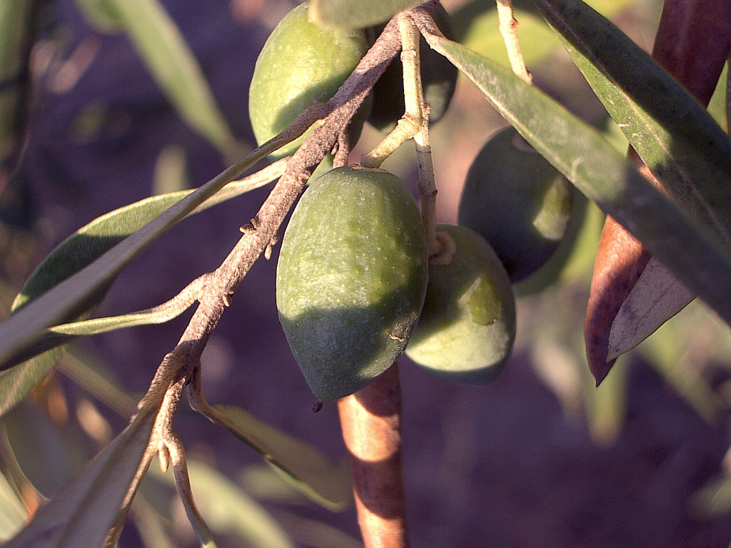 Olive tree fruits in August. They are full size, but still not ripe. Location: Bela Vista, Lisboa, Portugal.